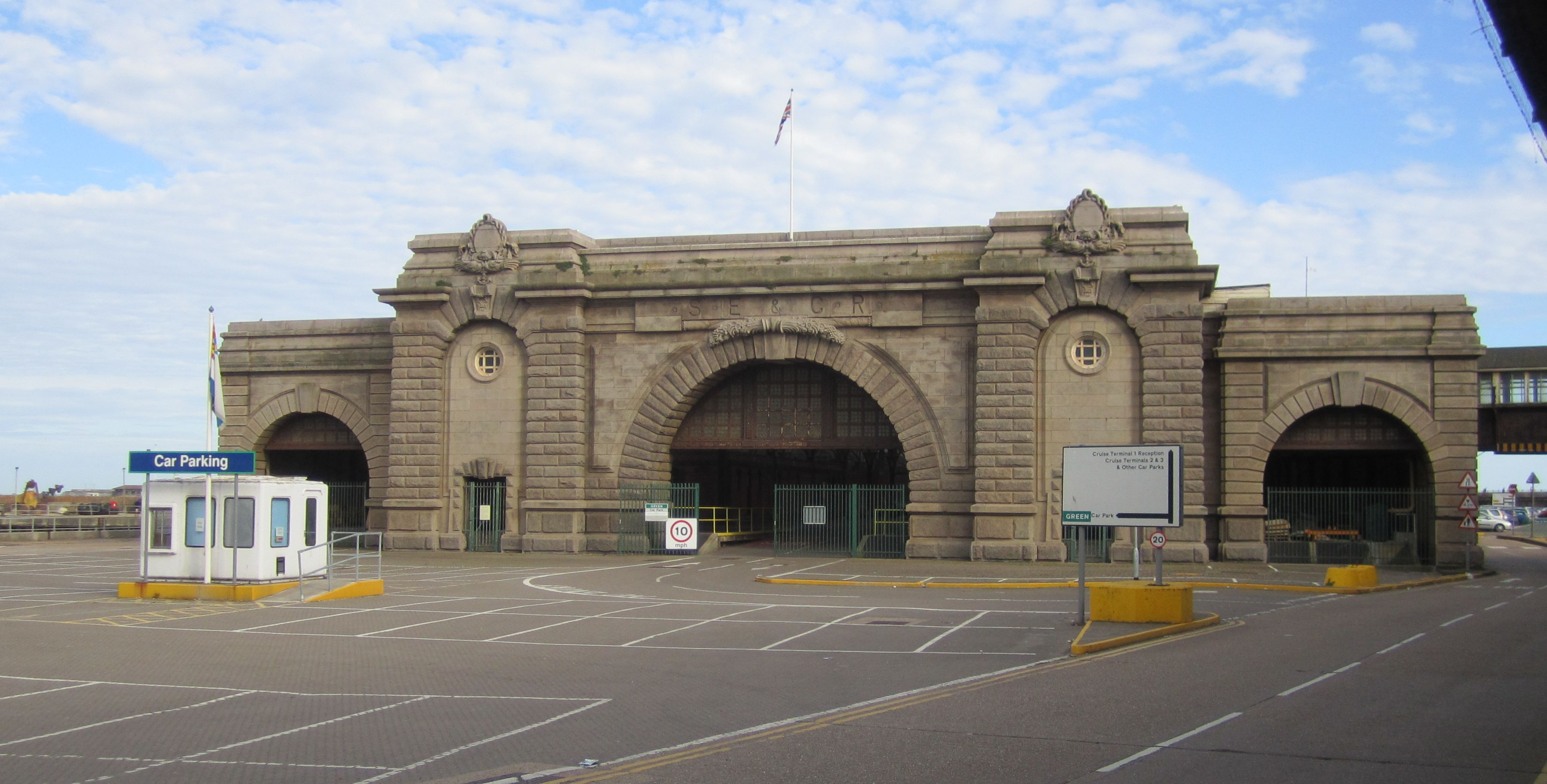 South Eastern and Chatham Railway Terminal ("Dover Marine", "Dover Western Docks"), Dover.